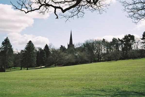 View of Kings Norton Park towards St Nicholas's Church. Land given to the city by The Birmingham Civic Society